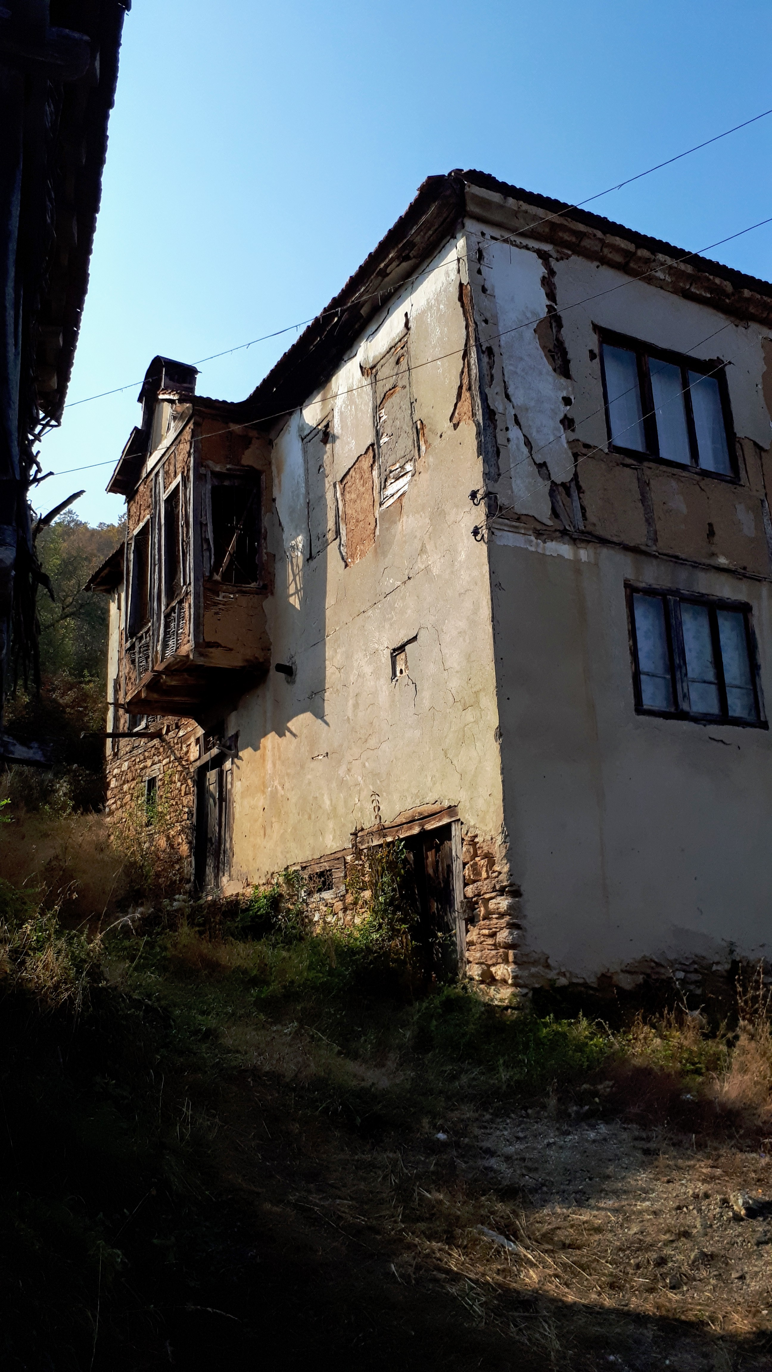 Old house in the village Vidrani